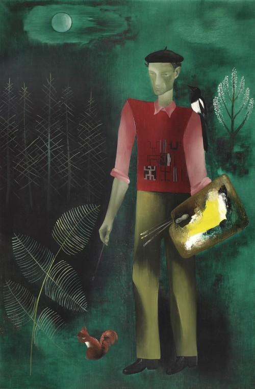 Tinus van Doorn Self-portrait with magpie 'Gerrit'